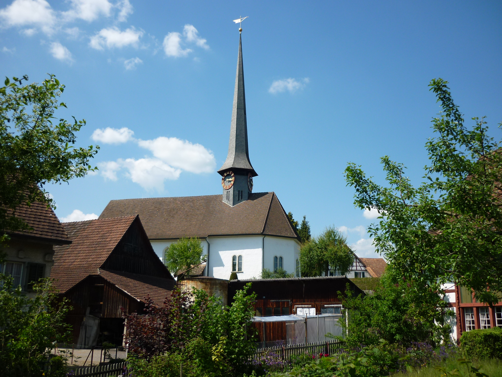 Church Marthalen ZH, Switzerland